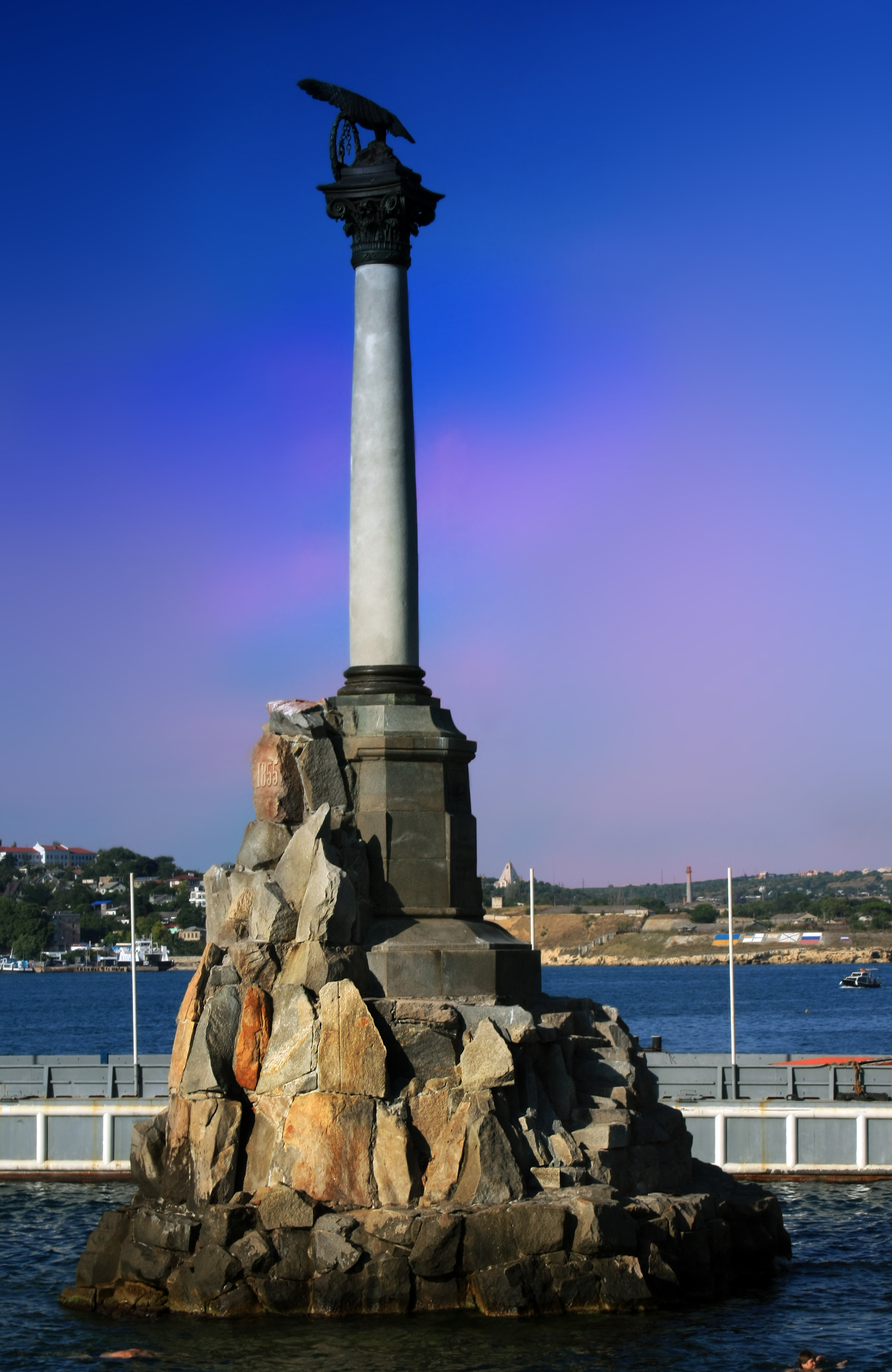 Monument to the Scuttled Ships, Crimea,Sebastopol. The sculptor Amandus Adamson 1905